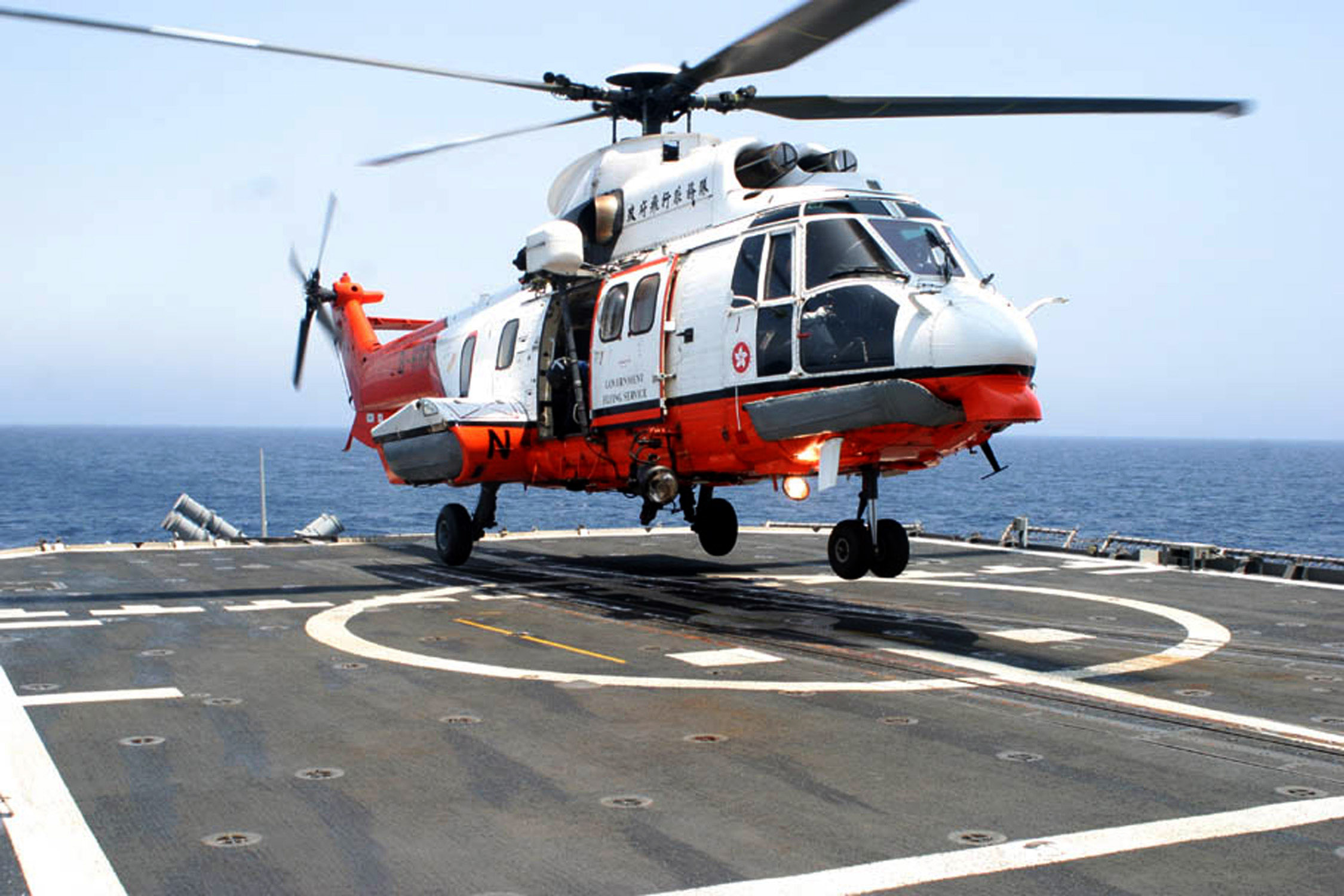 Western Pacific Ocean (April 10, 2006) - A Super Puma helicopter (AS 332L1) from Hong Kong's Governmental Flight Service (HKGFS) touches down on the flight deck of the Ticonderoga-class guided missile cruiser USS Mobile Bay (CG-53) in the Western Pacific during the first-ever refueling of a HKGFS Super Puma by a U.S. Navy ship.